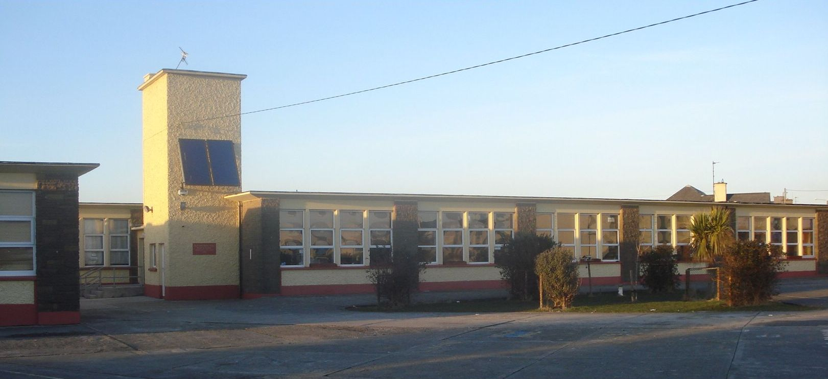 St Joseph's Primary School Milltown Malbay